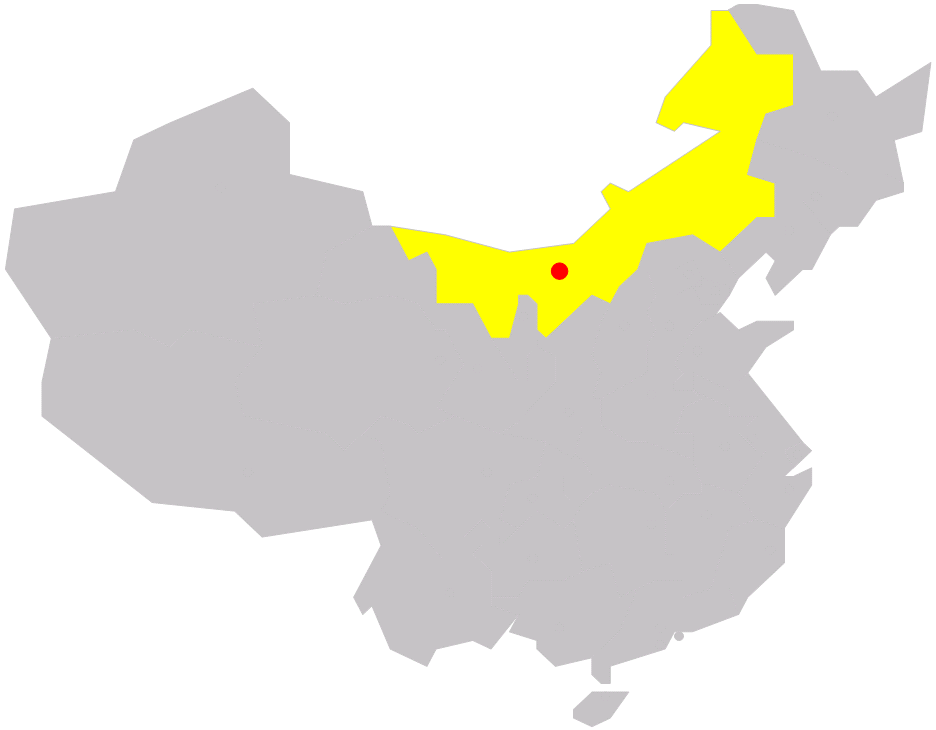 position of Baotou in China